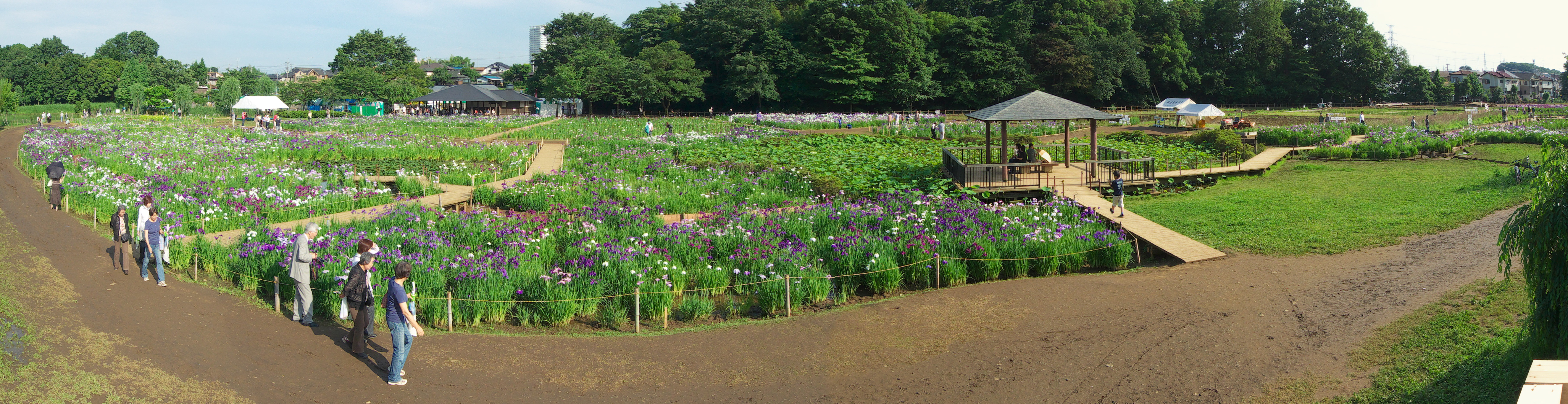 Panoramic view of Kitayama Park in Higashimurayama City, Tokyo, Japan